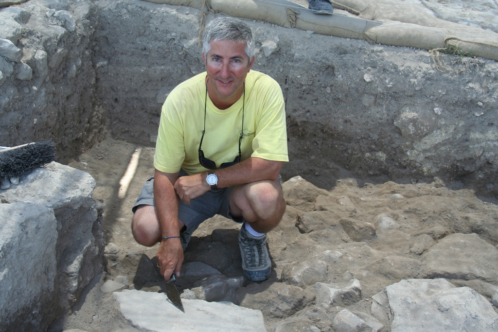 Eric H. Cline excavating at Megiddo